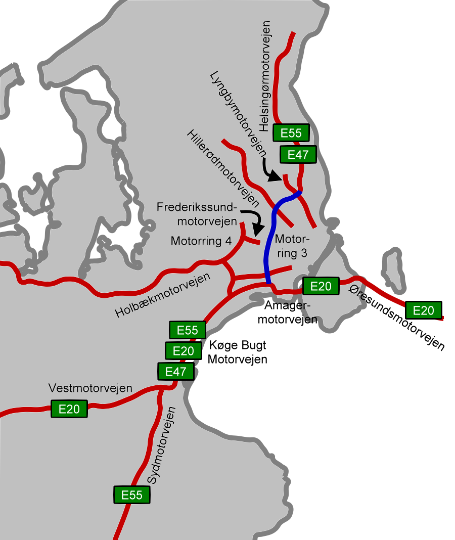 Map of Motorring 3 in Copenhagen